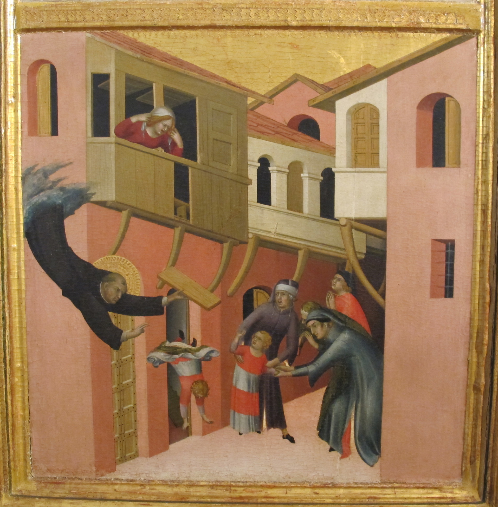 Painting in the National Pinacotheque, Siena